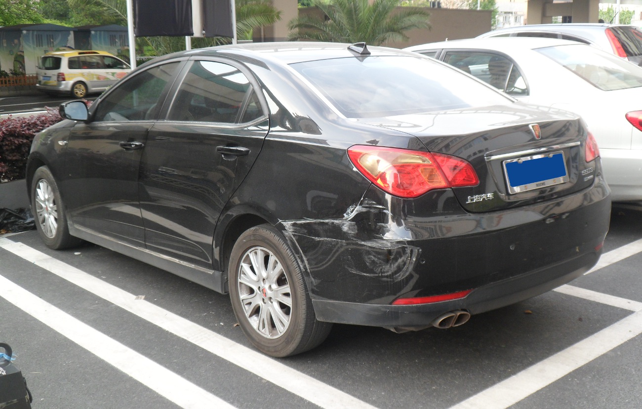 Roewe 550 photographed in Shanghai, China.